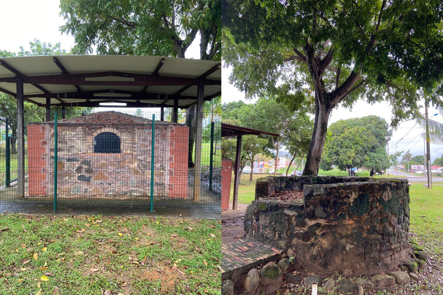 On the left, it is the old bread oven and on the right's picture, this is the water well of the Martiniquan. But the later wasn't at this location but 50 meters behind this nowadays point. In the same garden, there is two commemorative stele.